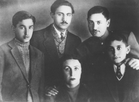 First generation Rezai Family in 1936.